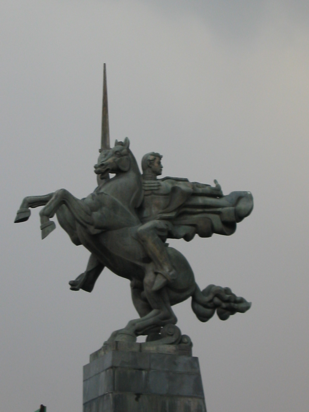 Equestrian statue of Gayk Bzhiskhyan in Yerevan, Armenia, photo taken by Eupator.